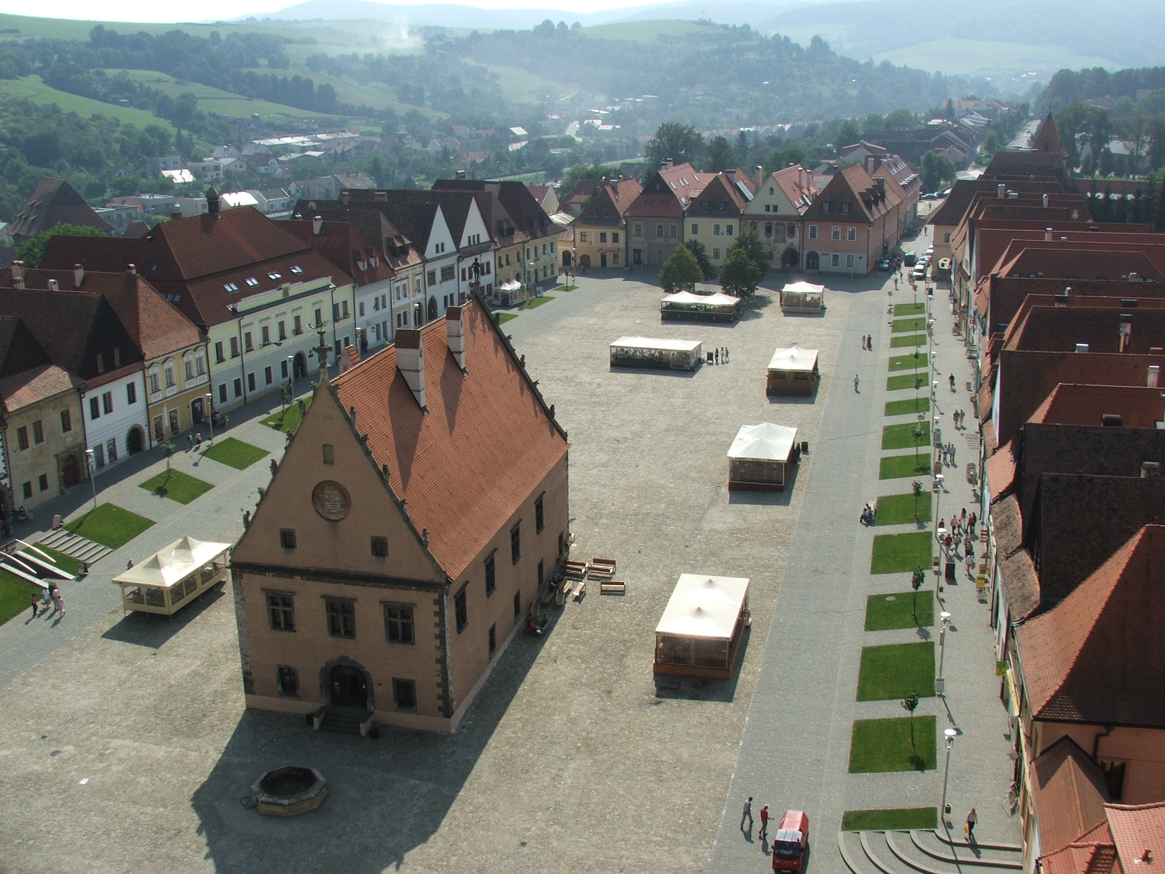 Town Hall Square in Bardejov, Slovakia Česky: Radničné námestie v Bardějově na Slovensku This medium shows the protected monument with the number 701-1677/0 in the Slovak Republic.